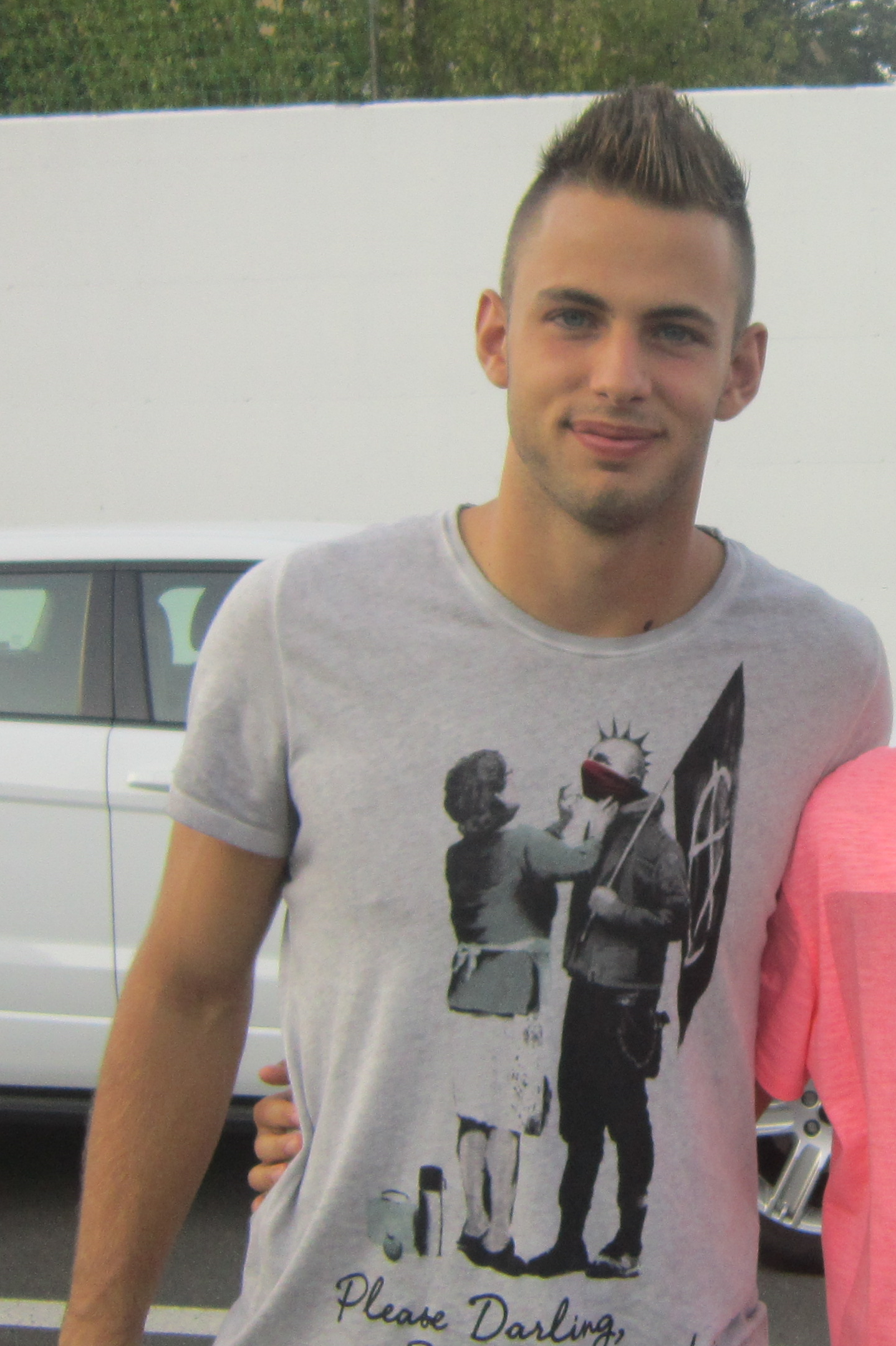 leali